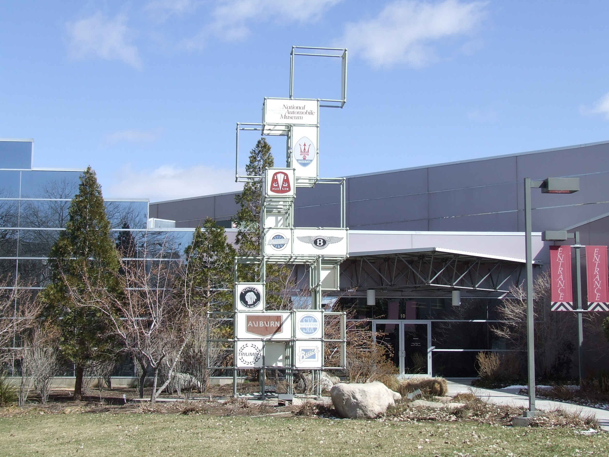 The National Automobile Museum, located in Reno.